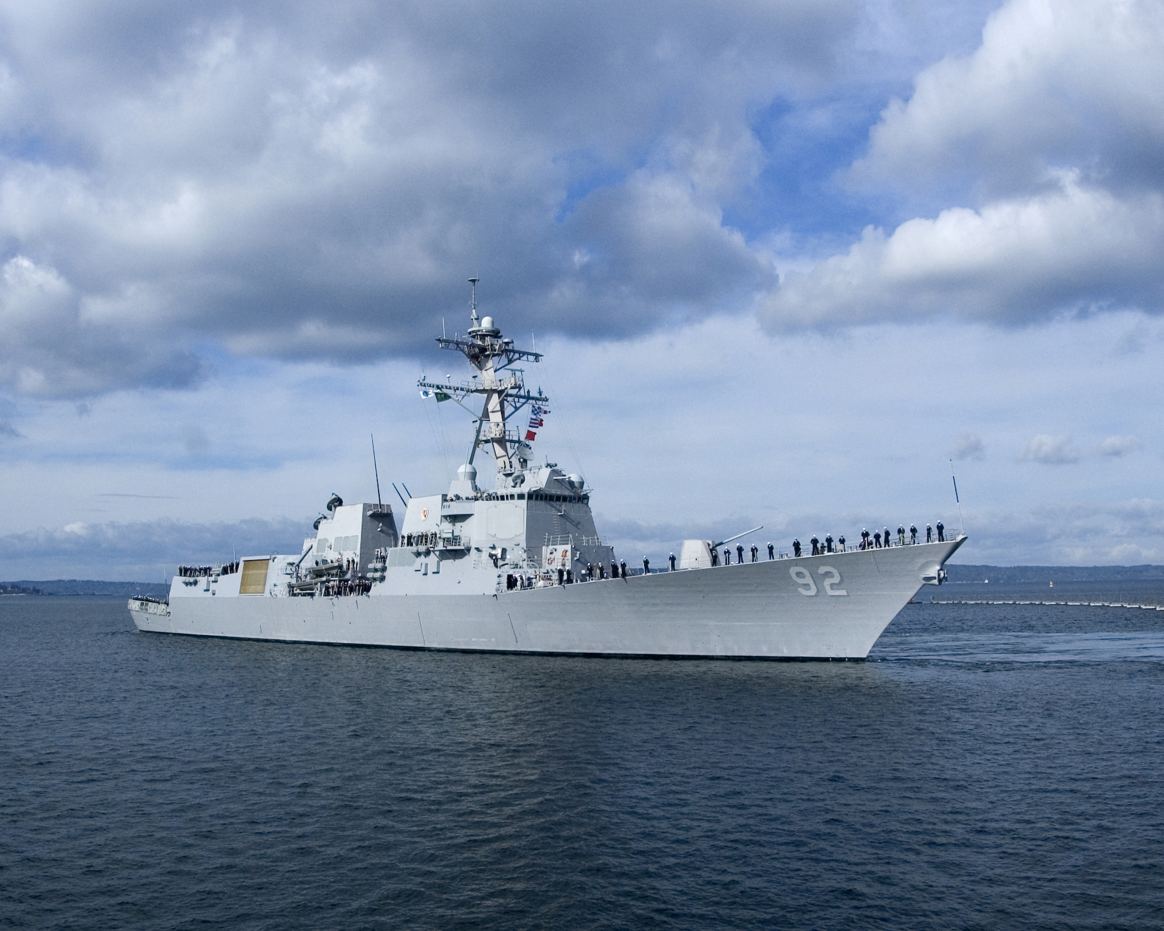 Everett, Wash. (April 6, 2006) - Sailors stationed aboard the guided missile destroyer USS Momsen (DDG 92) man the rails as the ship pulls away from her homeport of Naval Station Everett. Momsen and her crew are underway for their maiden deployment to monitor maritime operations in Southeast Asia in support of the global war on terrorism. U.S. Navy photo by Photographer’s Mate 3rd Class Douglas G. Morrison (RELEASED)